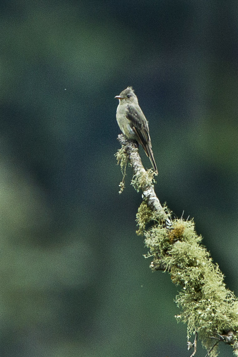 Greater Pewee - Oaxaca - Mexico_S4E8955